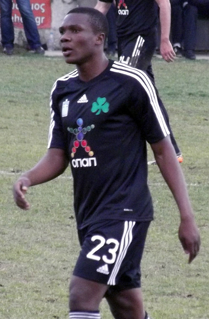 Simao Mate Junior playing for Panathinaikos against Agrotikos Asteras.